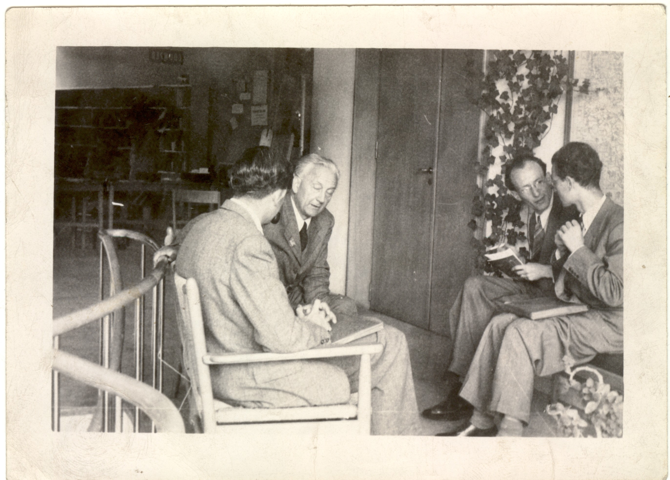 W.F.H. M Mommaerts and Albert Szent-Györgyi on the left and Endre Bíró and Tamás ÍErdős on the right.